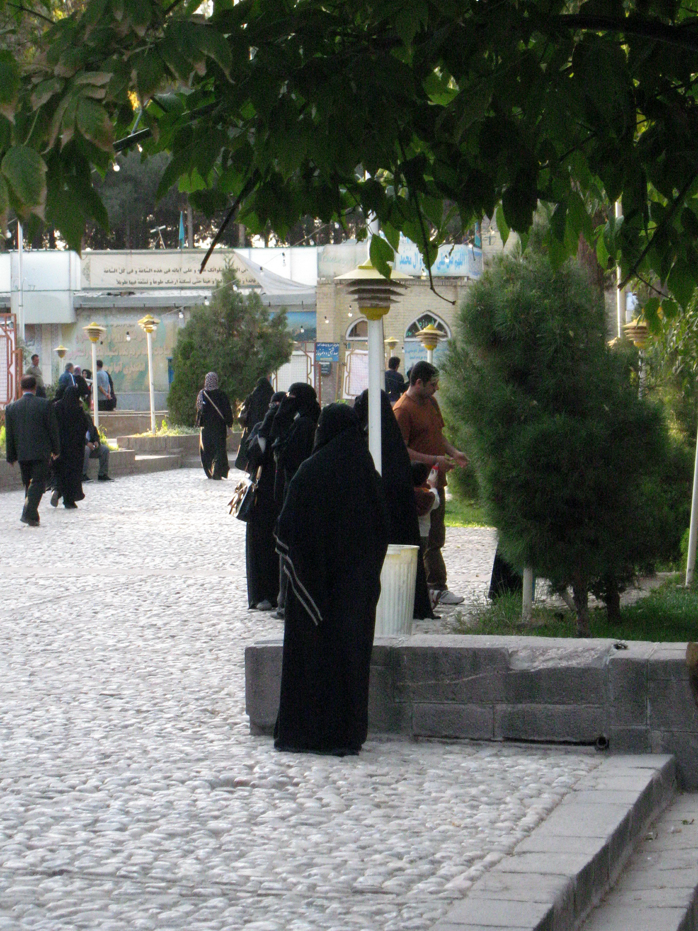 Saudi Arabian woman with Burqa taking photo from Mosque of Mohammad al Mahruq - Nishapur 1